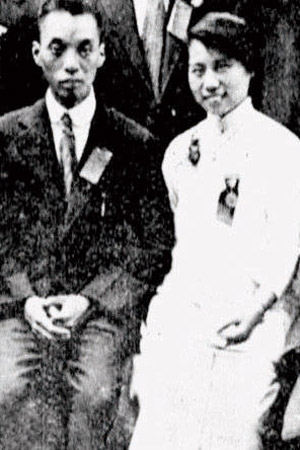 Chen Hengzhe and her husband Ren Hongjun Peking University Alumni - date has to be before 1965 to be copyright free and she is not in her 70s in this pic - guess 55 but prob b4